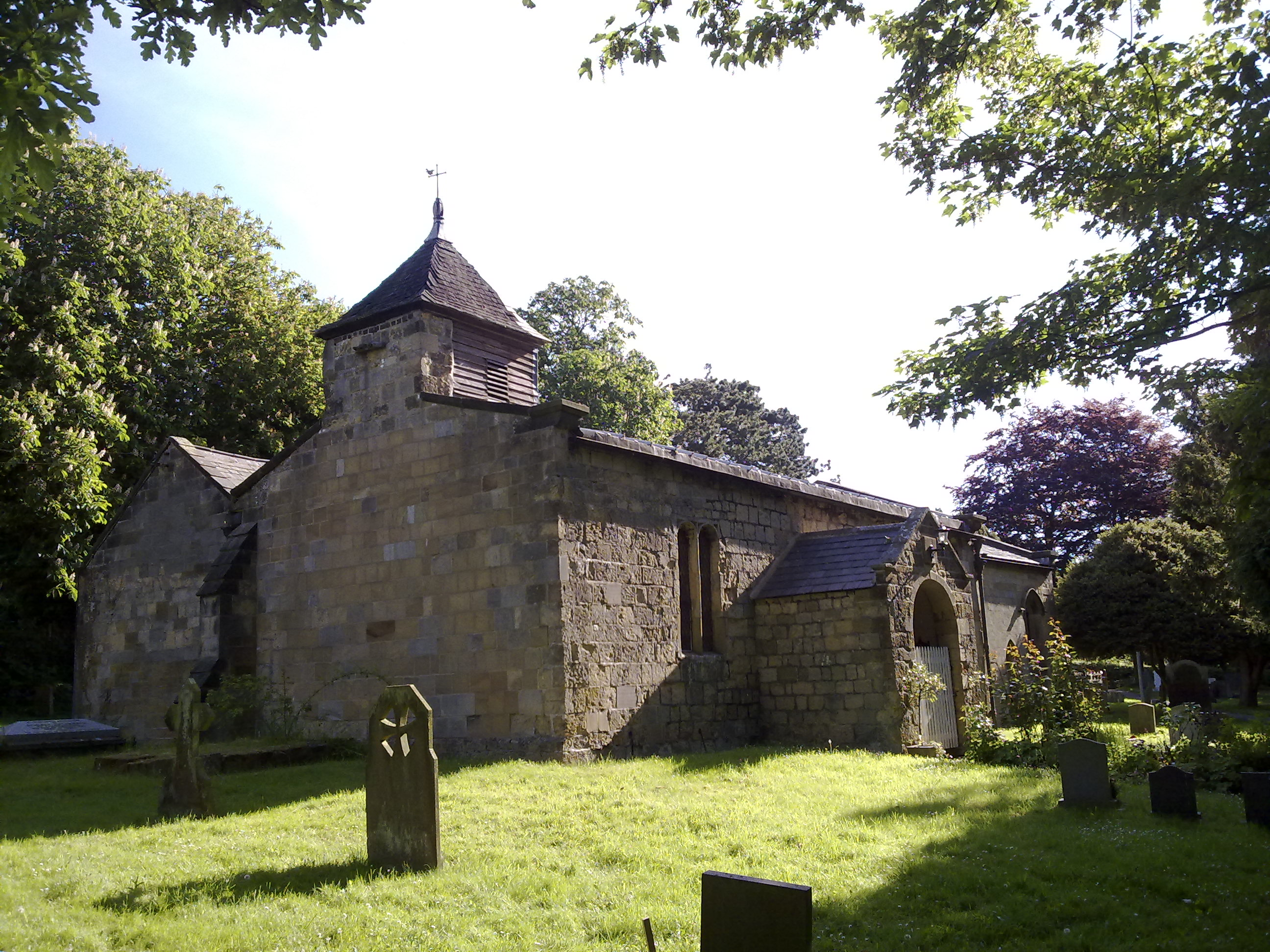 All Saints Church, Wold Newton, East Riding of Yorkshire, England.